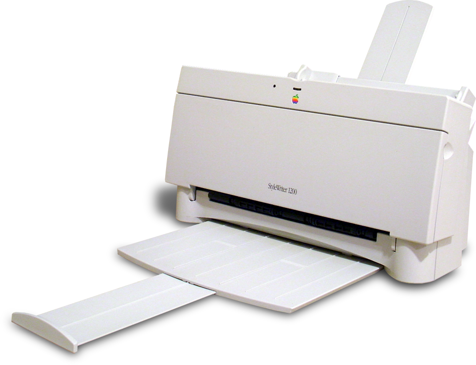 I took this picture of my Apple StyleWriter 1200.